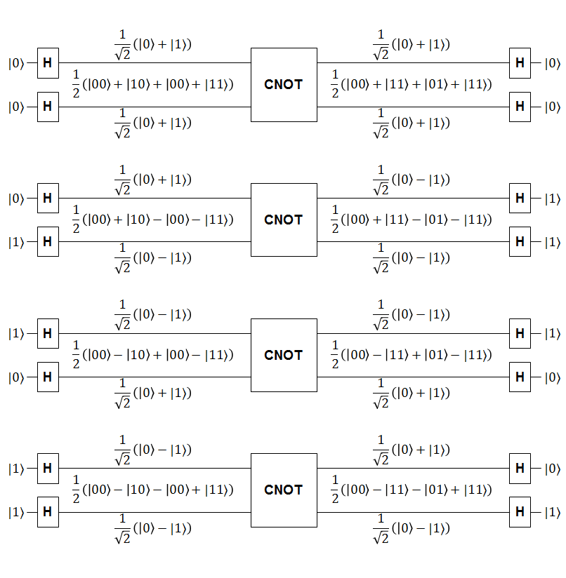 the effects of the CNOT gate in Hadamard basis